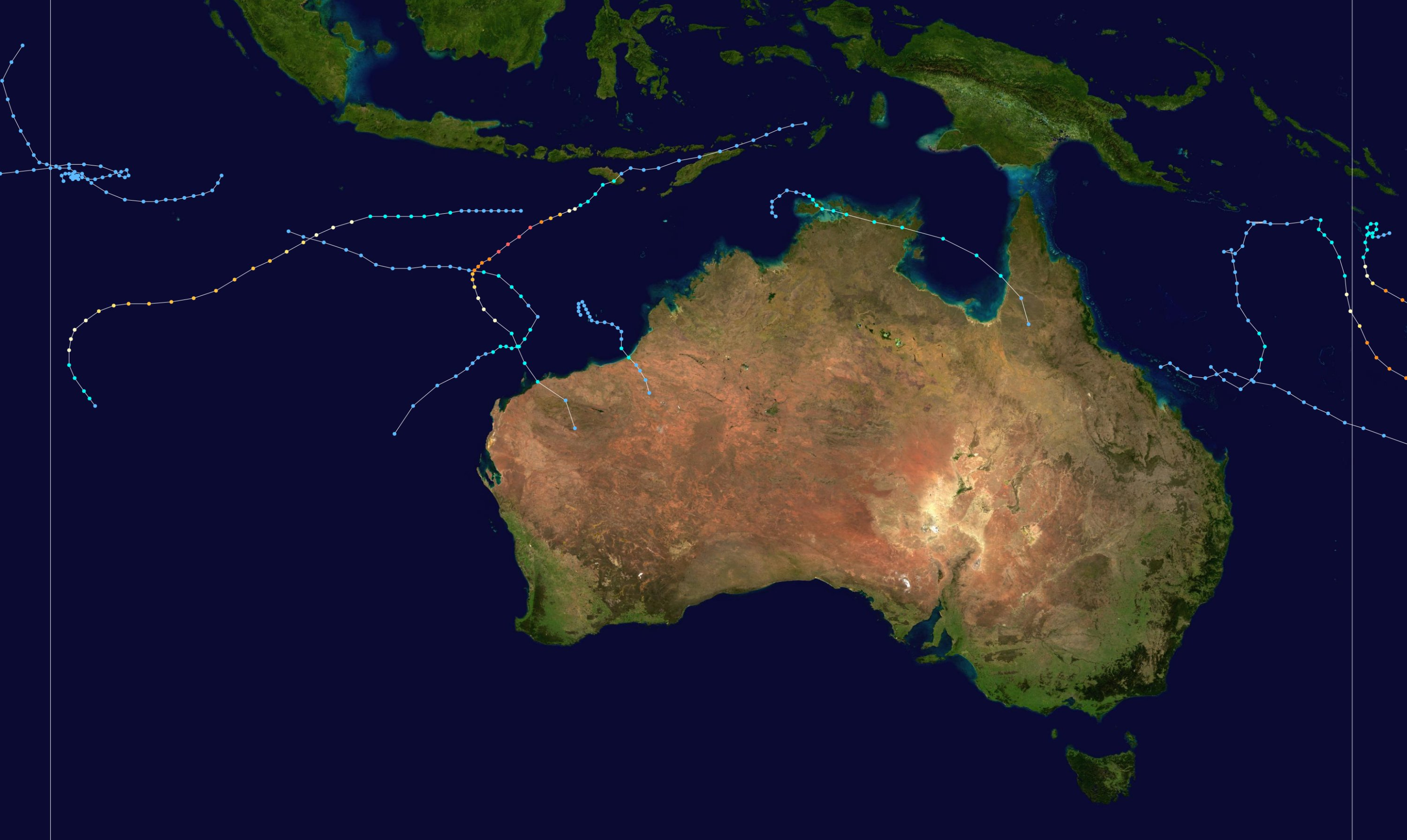 This map shows the tracks of all tropical cyclones in the 2002-03 Australian region cyclone season. The points show the location of each storm at 6-hour intervals. The colour represents the storm's maximum sustained wind speeds as classified in the Saffir-Simpson Hurricane Scale (see below), and the shape of the data points represent the type of the storm. Saffir–Simpson hurricane wind scale Tropical depression≤38 mph≤62 km/h Category 3111–129 mph178–208 km/h Tropical storm39–73 mph63–118 km/h Category 4130–156 mph209–251 km/h Category 174–95 mph119–153 km/h Category 5≥157 mph≥252 km/h Category 296–110 mph154–177 km/h Unknown Storm typeTropical cycloneSubtropical cycloneExtratropical cyclone / Remnant low / Tropical disturbance